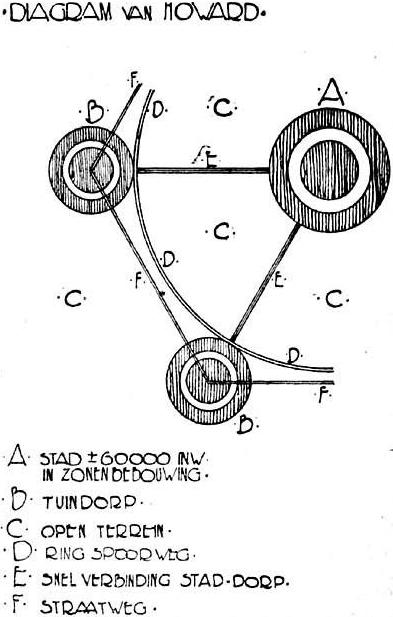 Diagram illustrating correct principle of a city's growth [...].